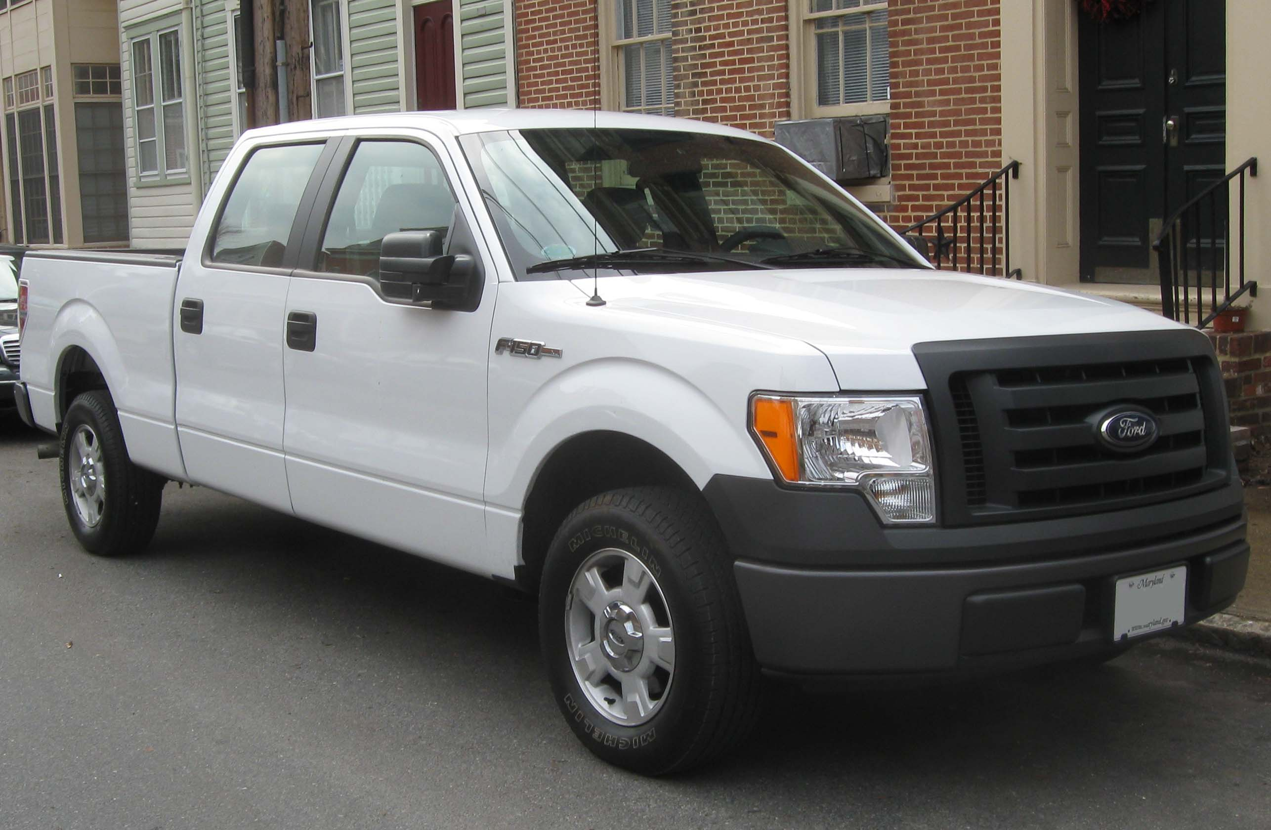 2009-2010 Ford F-150 photographed in Annapolis, Maryland, USA.